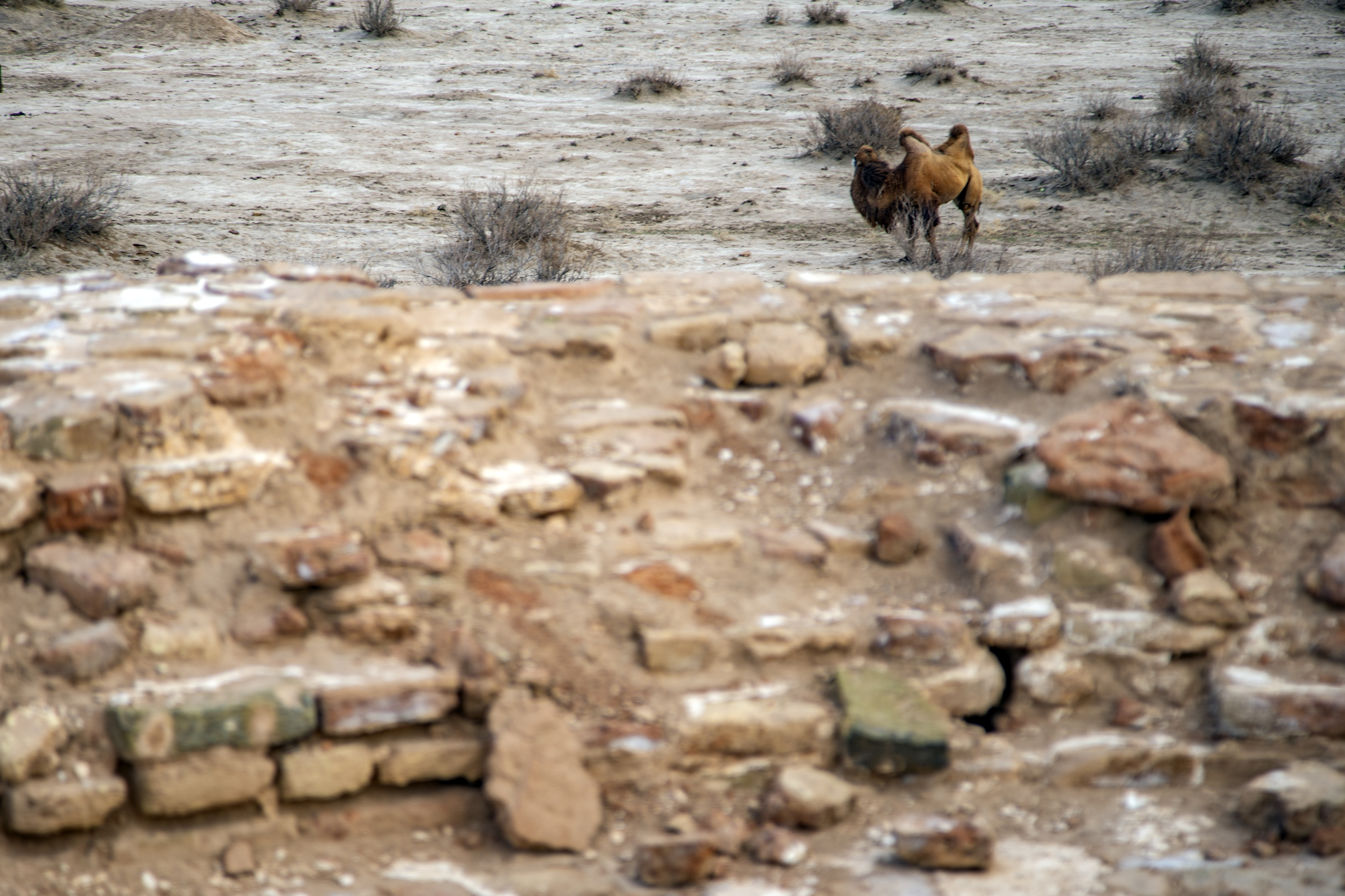 Deir-e Gachin Caravansarai is one of the greatest caravansarais of Iran which is located in the center of Kavir National Park. Its unique qualities is the reason it is called “Mother of Iranian Caravansarais”. It is located in the Central District of Qom County, 80 kilometers north-east of Qom (60 kilometers into Garmsar Freeway) and 35 kilometers south-west of Varamin. This monument was registered in Iran's National Heritage List on September 23, 2003. The structure of this caravanserai belongs to Sasanian era, and restorations took place in Seljuk, Safavid and Qajar eras. Its current form belongs to Safavid era. This caravanserai is situated on the ancient rout from Ray to Isfahan. The structure of this caravansarai is in Seljuki four-iwan form and is 12000 square meters wide. The interior spaces of the caravansarai include human, livestock, service and convenience, and security spaces. There are four circular towers at the corners and two half-oval towers at both sides of the main gate which is situated in the middle of the southern wall. Also, there are 44 rooms or chambers, 4 big halls (stables), mosque, private shabestan, fodder barn, gristmill, bathroom and toilet. The materials used in Deir-e Gachin are brick, lime, adobe and plaster. The mosque of the caravanserai was probably built in the place of the Sasanian fire temple and there are no decorations in it. There are a number of structures around the caravanserai as a collection including two Ab anbars behind the western side and close to the bathroom, a brick furnace, a dam, and a graveyard in the south-western side in which the graves are covered with bricks and that goes back to the Islamic era. There is a brick-clay-made structure in the form of a fort 500 meters east of the caravanserai which has only one entrance gate and its structure goes back to the Qajar era.